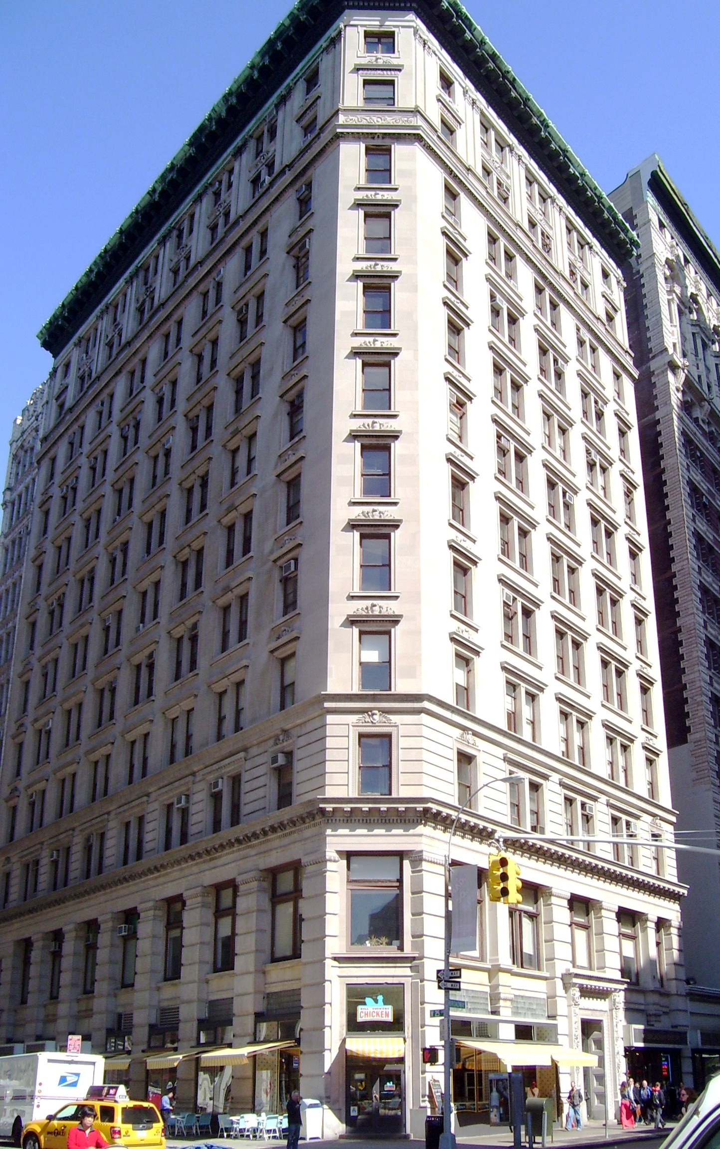 The Townsend Building at 1123 Broadway (1121-1127, also known as 9 West 25th Street) at the corner of West 25th Street in the NoMad neighborhood of Manhattan, New York City was built in 1896-97 and was designed by Cyrus L. W. Eidlitz in the Classical Revival style. The 12-story office building replaced the Worth House hotel, and lies within the Madison Square North Historic District. (Source: "NYCLPC Madison Square North Historic District Designation Report")